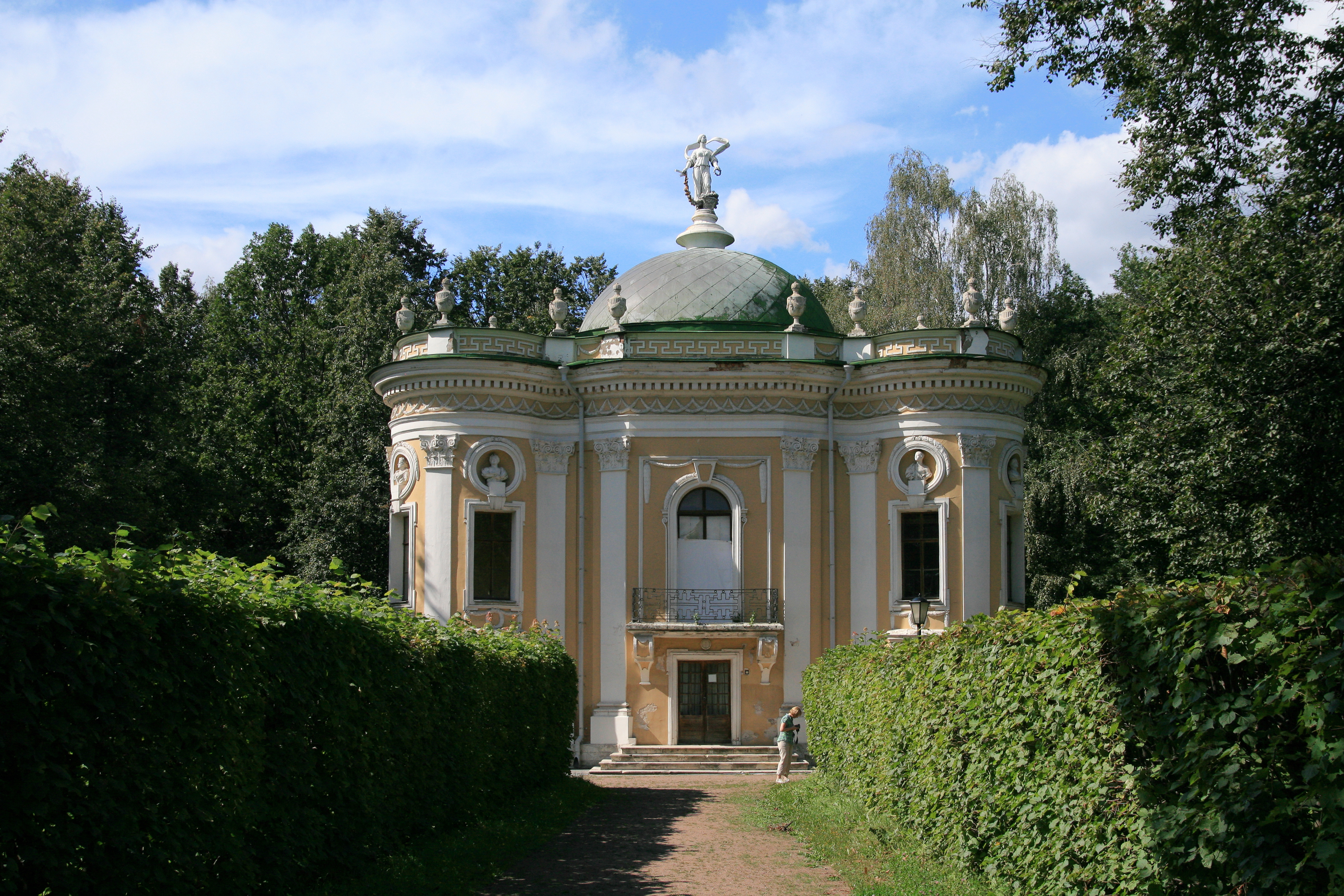 "Hermitage" Pavilion in Kuskovo Estate, 1765-1767, Moscow